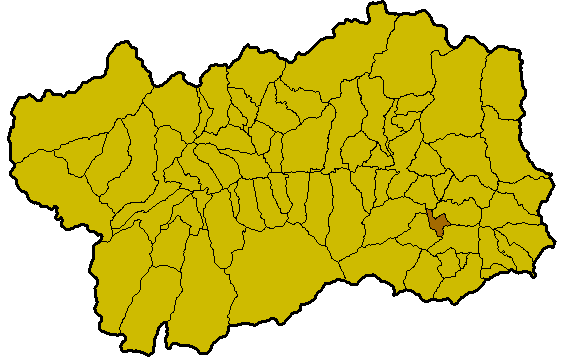 Location map of Verres in the Aoste Valley.